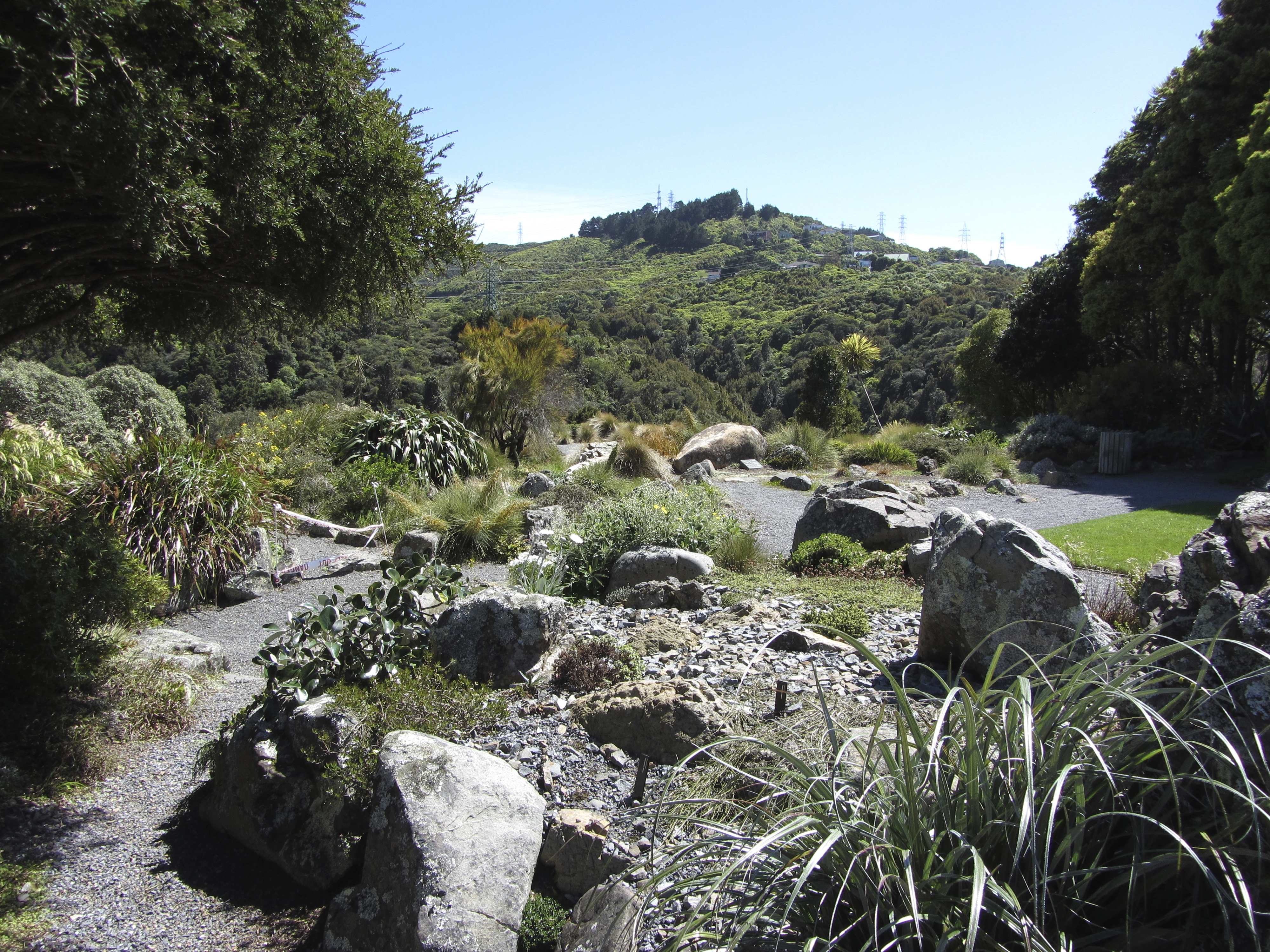 Otari Native Botanic Garden